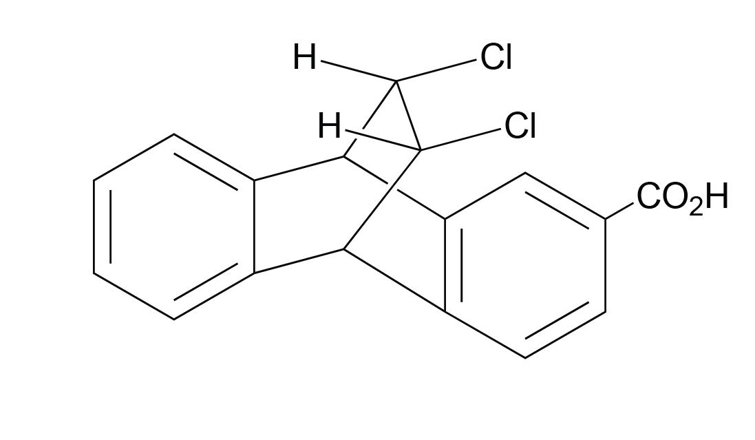 Dichloroethano-bridged anthroic acid isomer with chlorines pointed over carboxylic acid group.